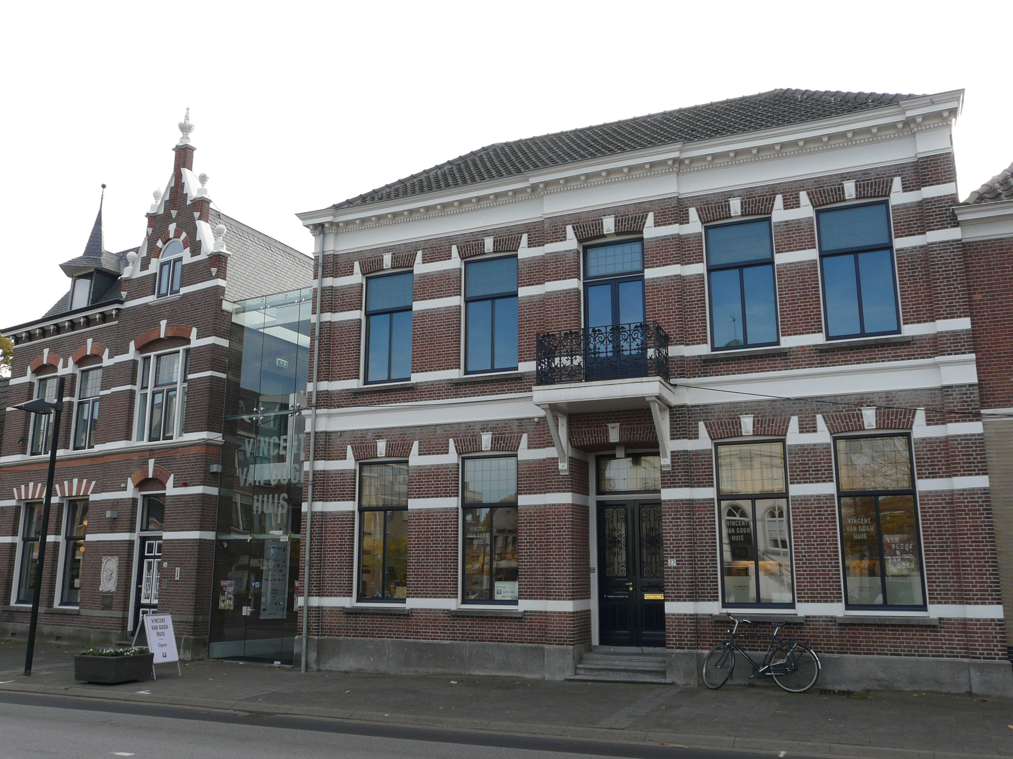 Part of the Van Goghhuis in Zundert